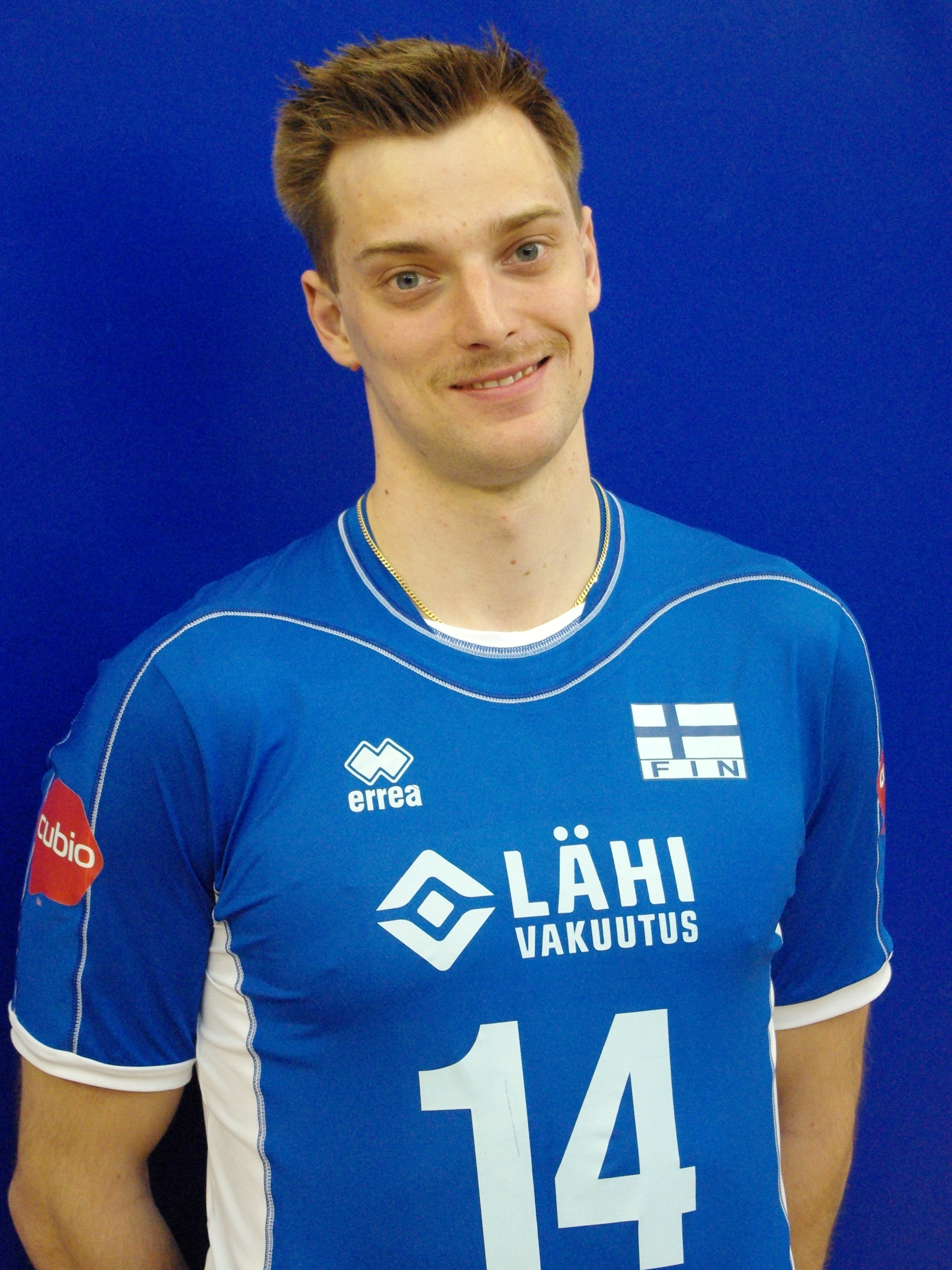 Shumov Konstantin